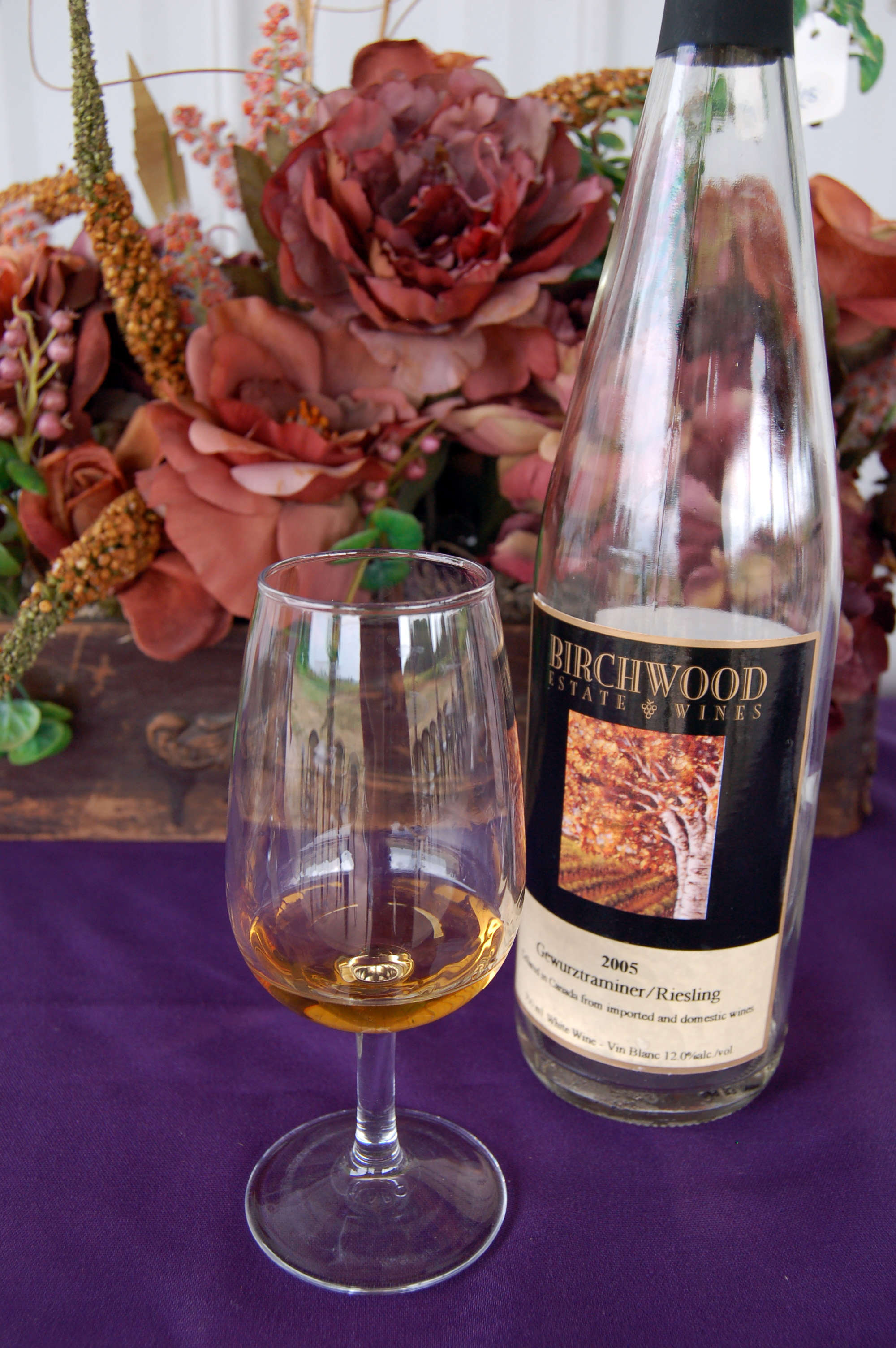 A wine from birchwood estate that is a blend of Gertie and Riesling.